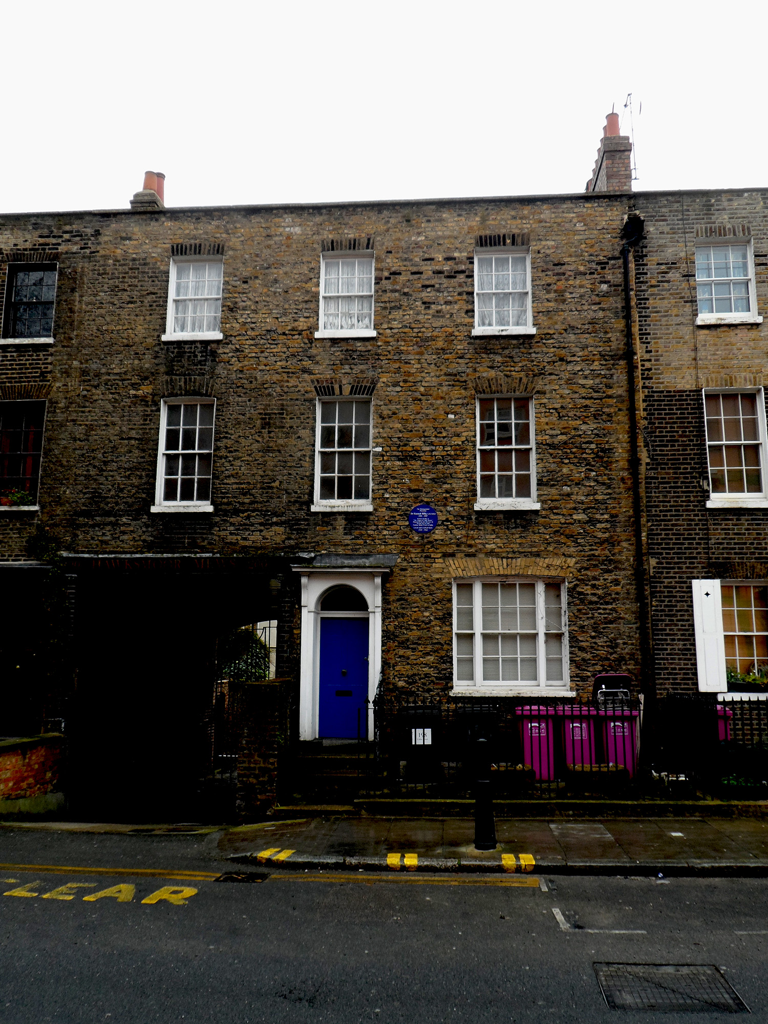 The distinguished physician Dr Hannah Billig GM, MBE 1901-1987 known locally as "The Angel of Cable Street." honoured for her bravery in World War II and famine relief work in India lived and worked here 1935-1964